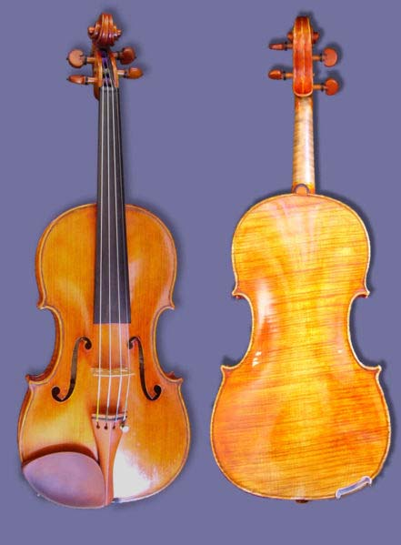 1981 Sergio Peresson Violin currently owned by Stefan Avalos